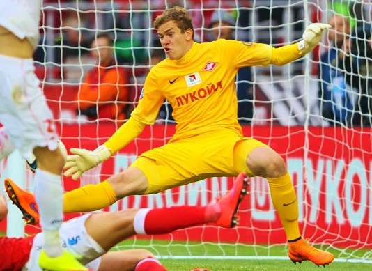 Anton Mitryushkin